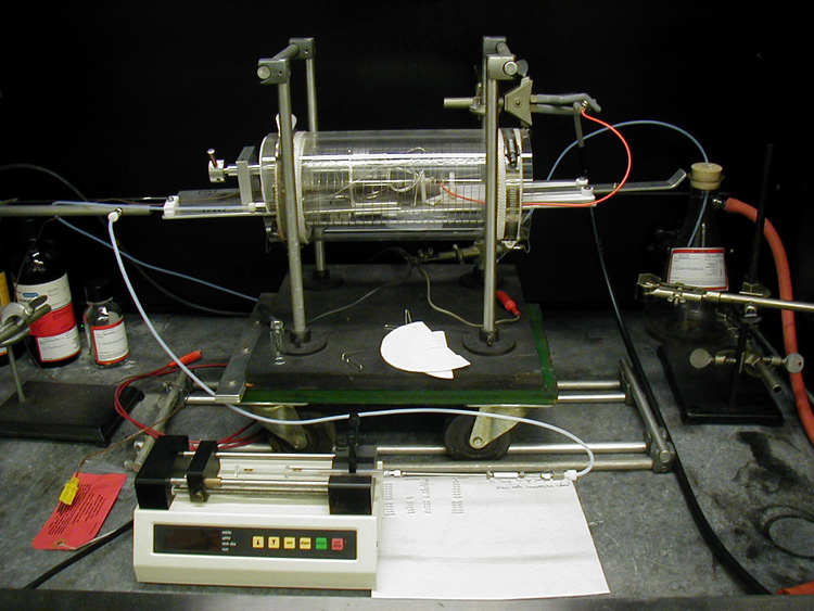 High_TEM_electrospray - Sample preparation of synthetic polymers that will not dissolve at room temperature presents a significant obstacle to the MALDI analysis of such materials. Bill Blair has constructed a device in our laboratory for the electrospray deposition of polymer samples dissolved in solvent up to 150 °C. The electrospray apparatus, the MALDI target and a small reservoir of dissolved polymer are contained in a thermostated heated zone allowing the dissolved polymer to be electrosprayed onto the target without precipitation out of solution. To electrospray a sample, solvent delivered by a syringe pump operating at room temperature displaces hot polymer-solvent solution within the heated zone of the apparatus. We have found that electrospray MALDI sample preparation crucial for creating reproducible mass spectra, which is critical to our standards development effort.